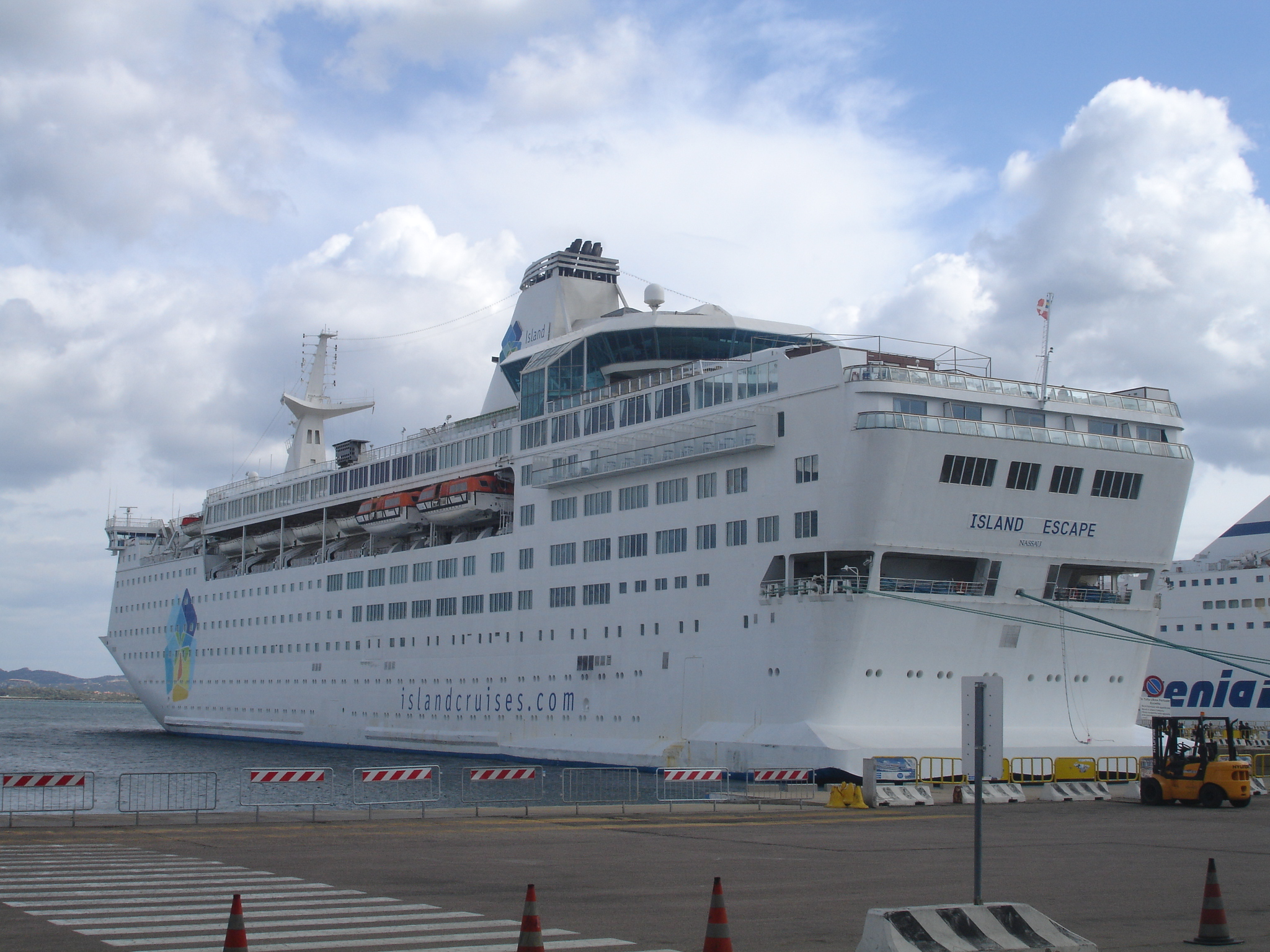 The Island Escape Ship from the Quayside at Olbia in Sardinia IMO Number: 8002597 MMSI Number: 311368000 Callsign: C6SK4 Length: 185 m Beam: 30 m Former names: since 2002 Mar 15 VIKING SERENADE since 1990 Jan 13 STARDANCER since 1985 Apr 10 SCANDINAVIA